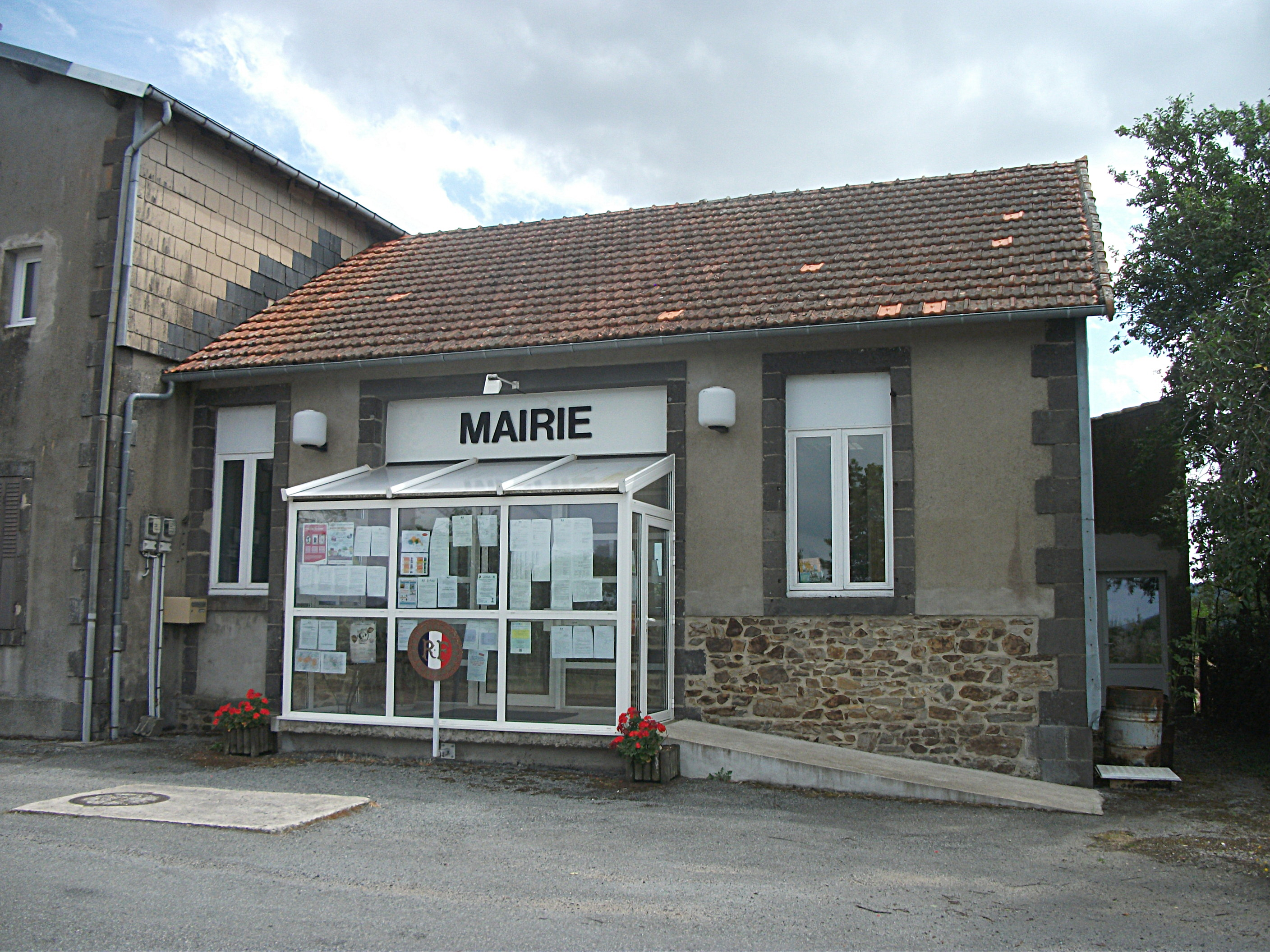 Town hall of Lisseuil, Puy-de-Dôme, Auvergne-Rhône-Alpes, France. [18898]